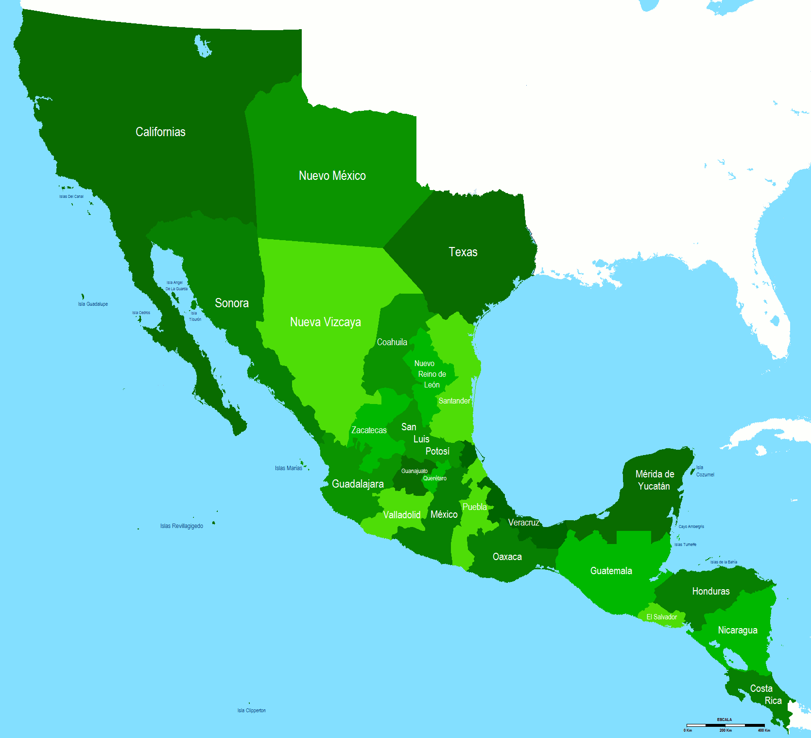 Intendencies of the First Mexican Empire